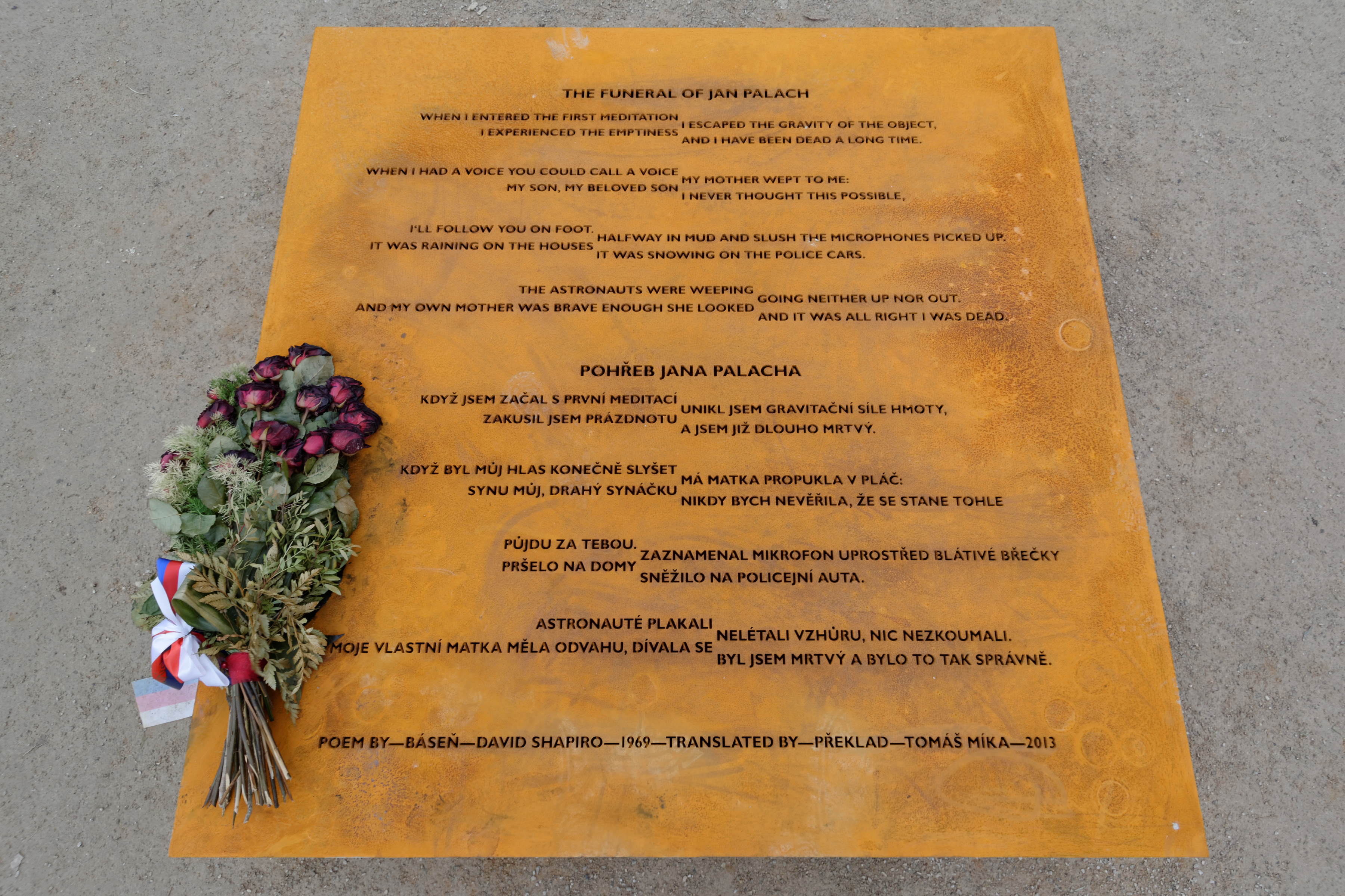 John Hejduk: The House of the Suicide and the House of the Mother of the Suicide. The plaque with the poem The Funeral of Jan Palach by David Shapiro. Translation into Czech by Tomáš Míka.